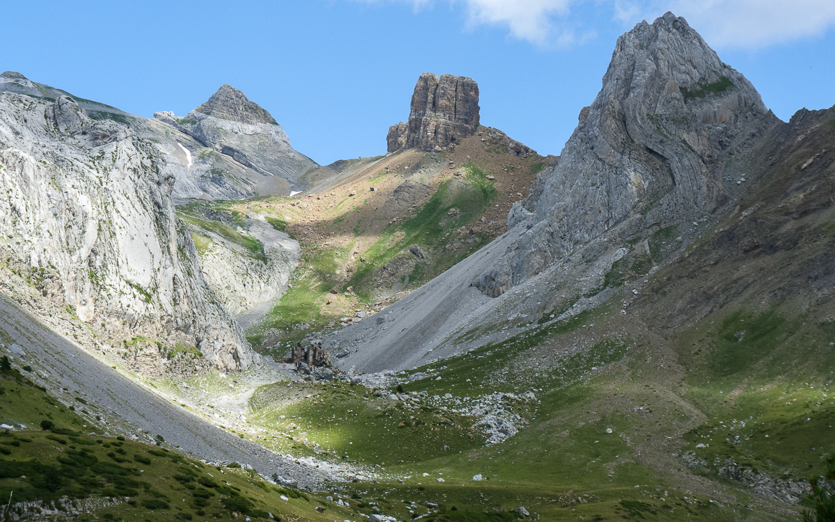 Valle de Aísa. El Rigüelo (Nacimiento del río Estarrún) This is a photography of a Special Area of Conservation in Spain with the ID: ES2410003. Natura2000 entry, EEA entry